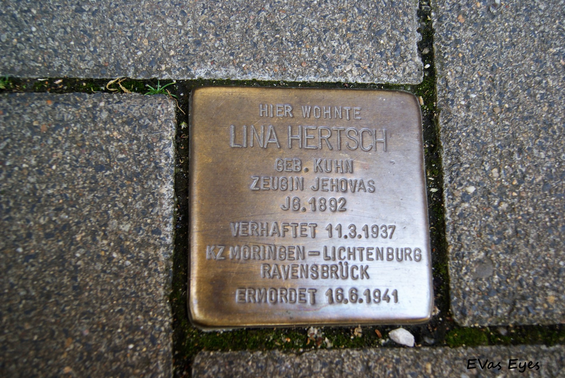 Stolperstein